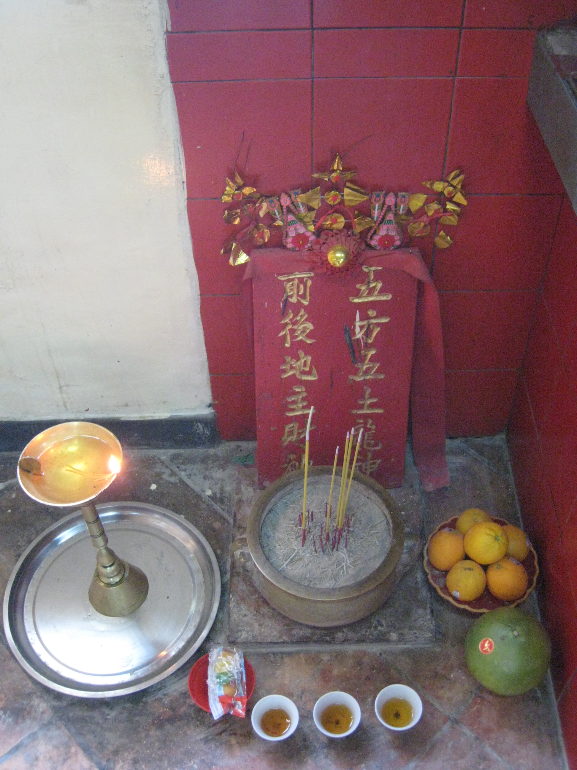 Dizhu of Tin Hau Temple of Stanley, Hong Kong Island.